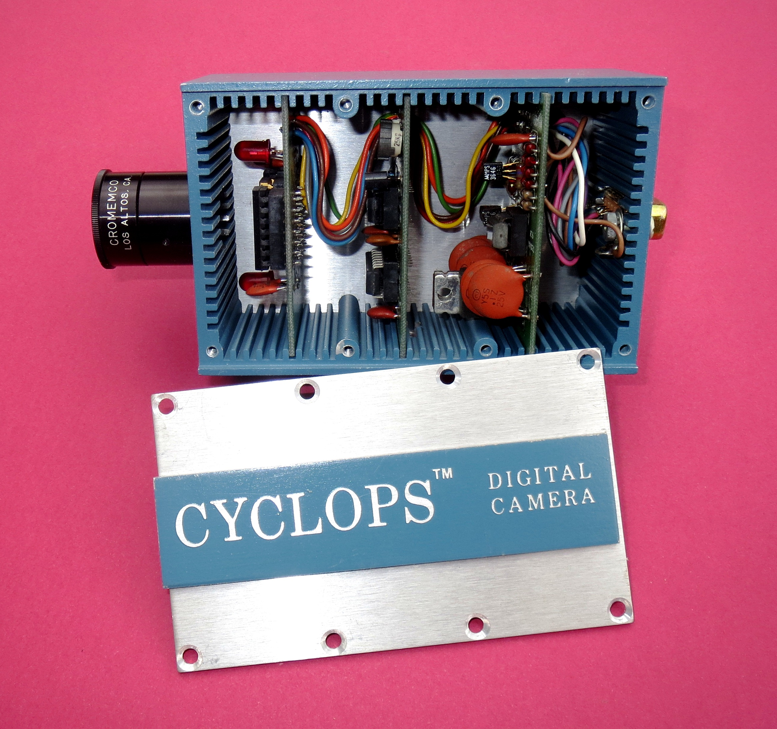 Cromemco Cyclops Digital Camera - First low-cost digital camera.